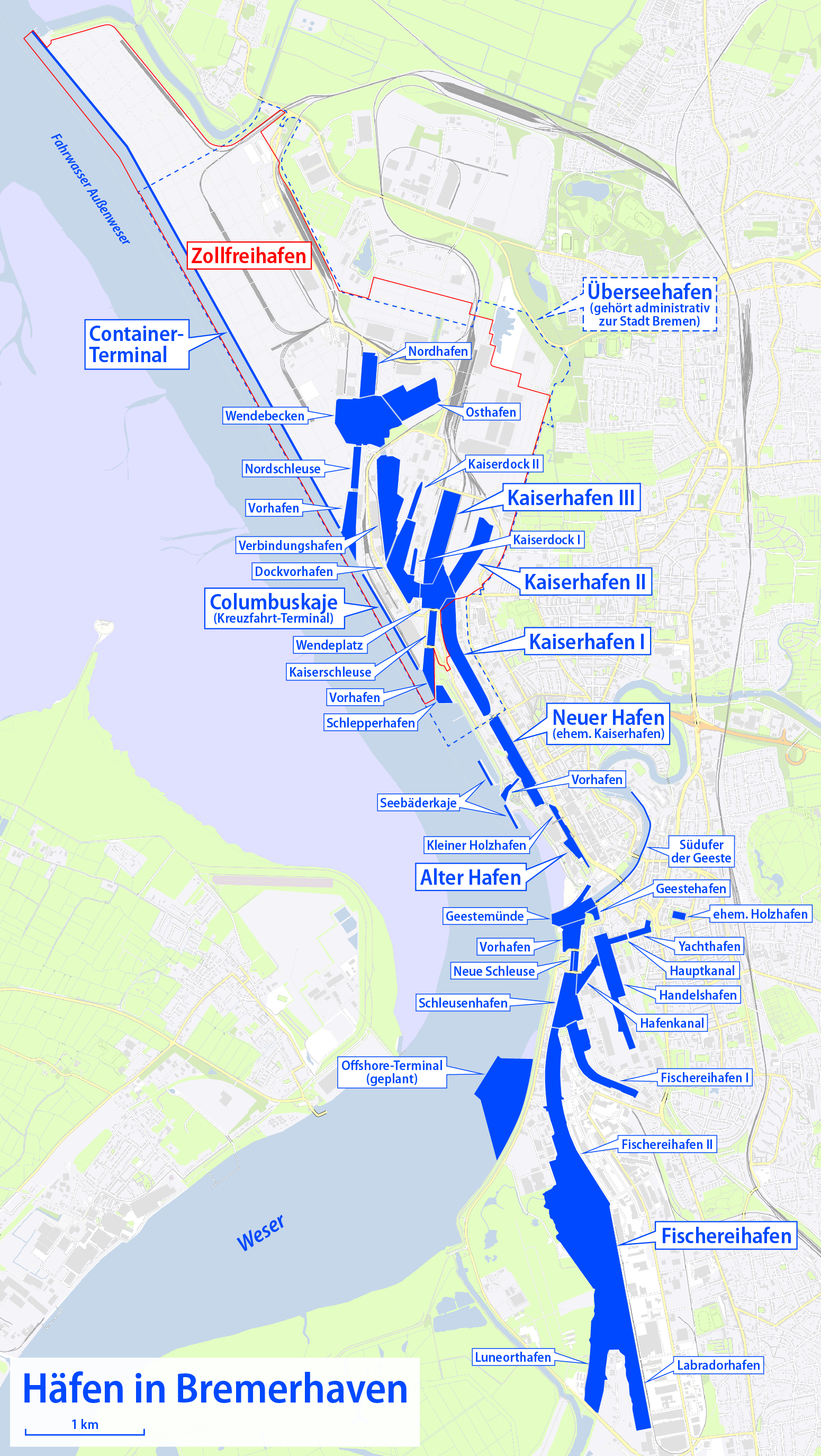 Map of the Bremerhaven harbours